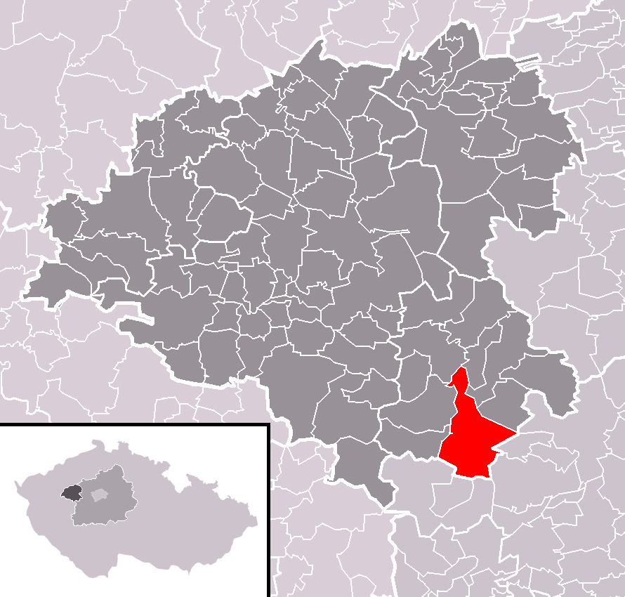 Location of Roztoky municipality within Rakovník District and (identical) administrative area of Rakovník as a Municipality with Extended Competence.